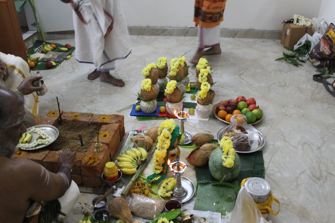 Navagrahas represent the nine celestial bodies , and their names are given below, Surya : the Sun Chandra : the Moon Mangala : Mars Budha : Mercury Dev Guru : Jupiter Shukra: Venus Shani: Saturn Rahu: Ascending (or north) Lunar node Ketu: Descending (or south) Lunar node In the hindu tradition, navagraha pooja is usually performed before entering a new house, this is nothing but invoking all nine bodies to bless the family , for a good start at the new home. This ritual is usually performed by the married couple, as the chanting of the prayers is done by the priests. Nine celestial bodies are represented by nine coconuts placed in nine small pots, along with betel leaves and flowers.These nine arrangements are called as ' Kalasas', in Indian Language. This photo has been taken in the country: India